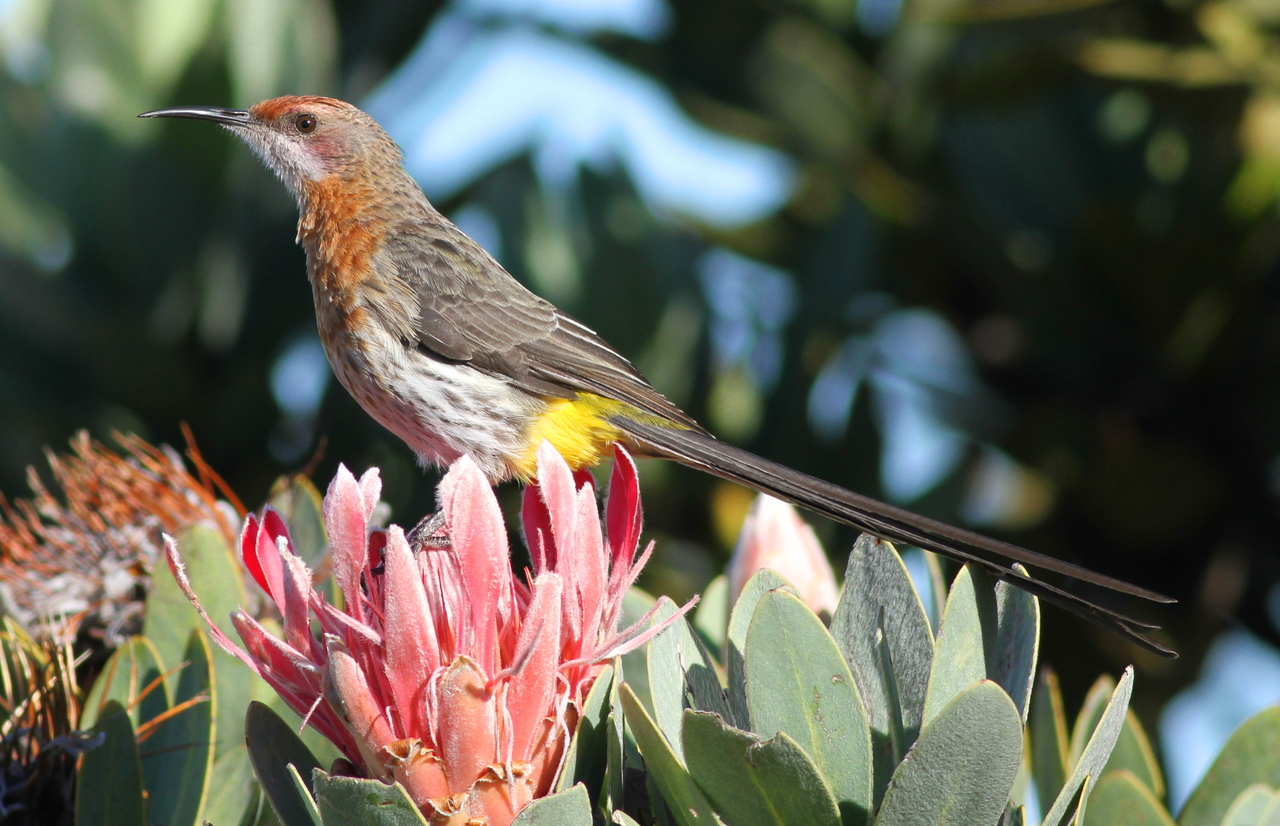 Gurney's Sugarbird, Promerops gurneyi at Marakele National Park